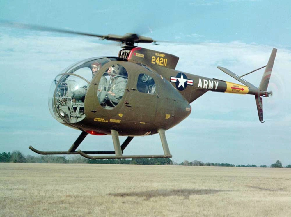 A U.S. Army Hughes YOH-6A Cayuse prototype (s/n 62-4211) in flight.